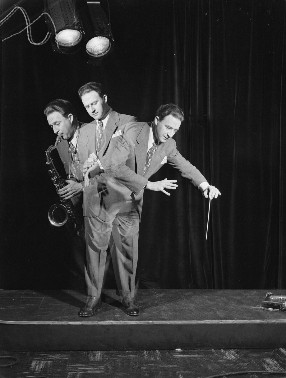 Jery Jerome, June 1947. Photography by William P. Gottlieb